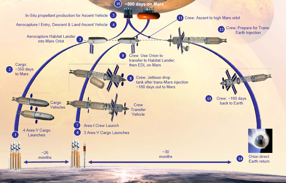 NASA Human Exploration of Mars Design Reference Architecture 5.0